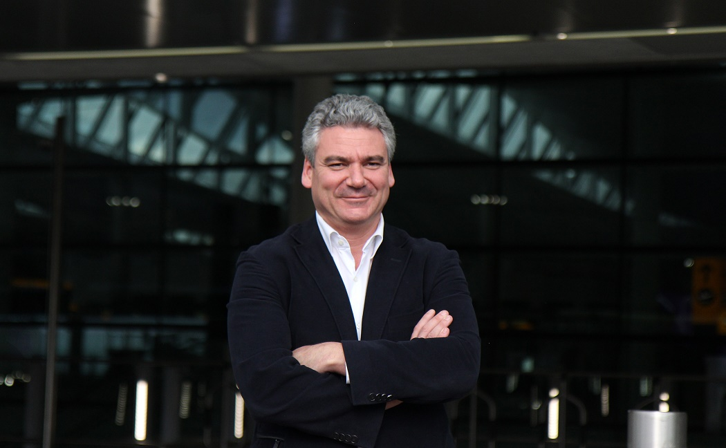 Luis Vidal, at Heathrow Terminal 2A opening, in 2014